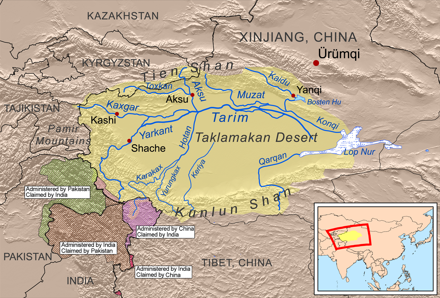 This is a map of the Tarim River drainage basin. Note that river courses shown crossing the Taklamakan Desert are usually dry.